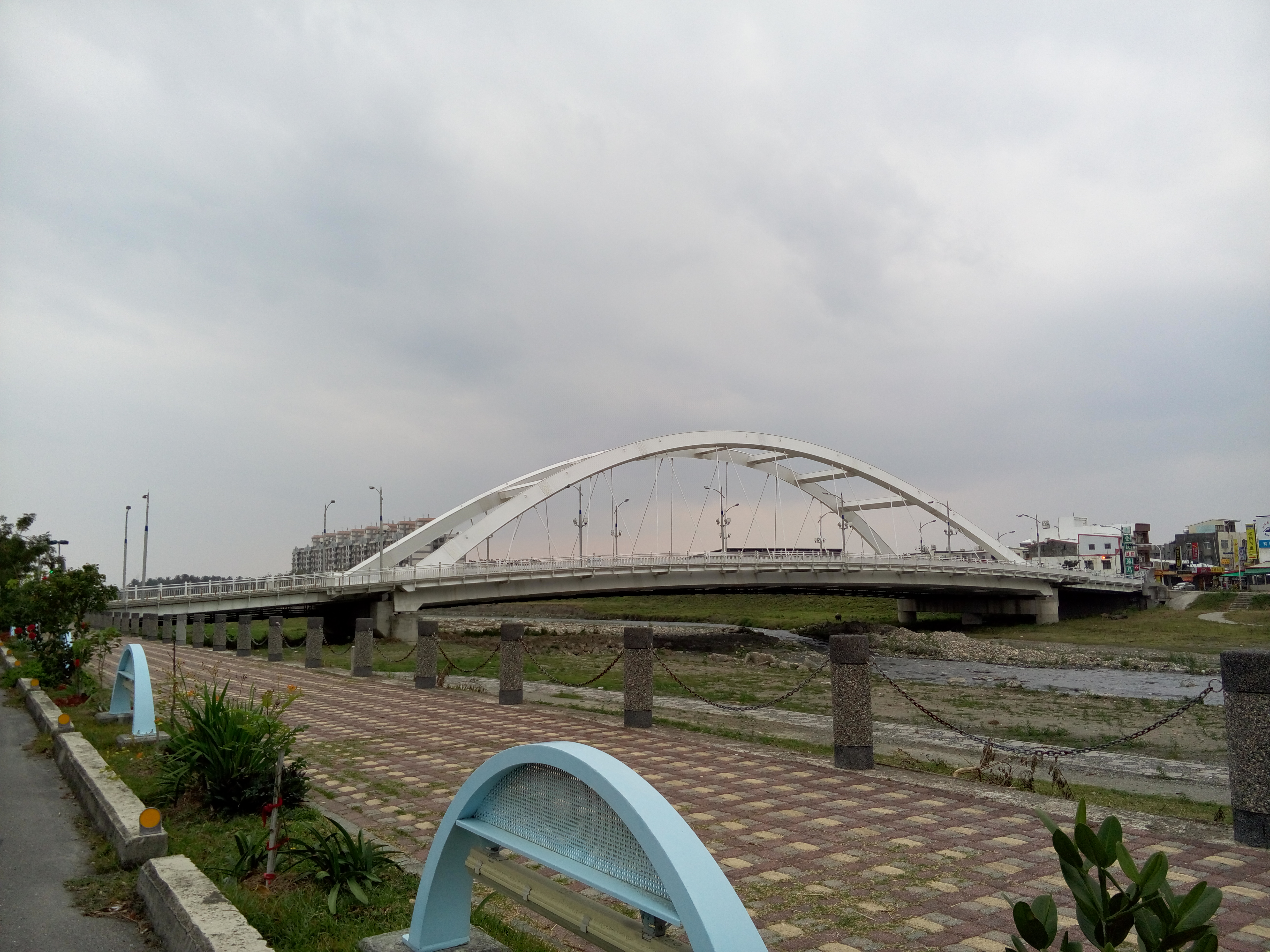 Taiwan(R.O.C)Taitung City Fongli Bridge